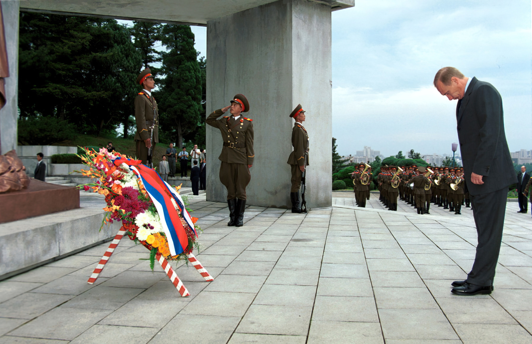 PYONGYANG. President Putin laying a wreath at a monument to the liberating Soviet Army.